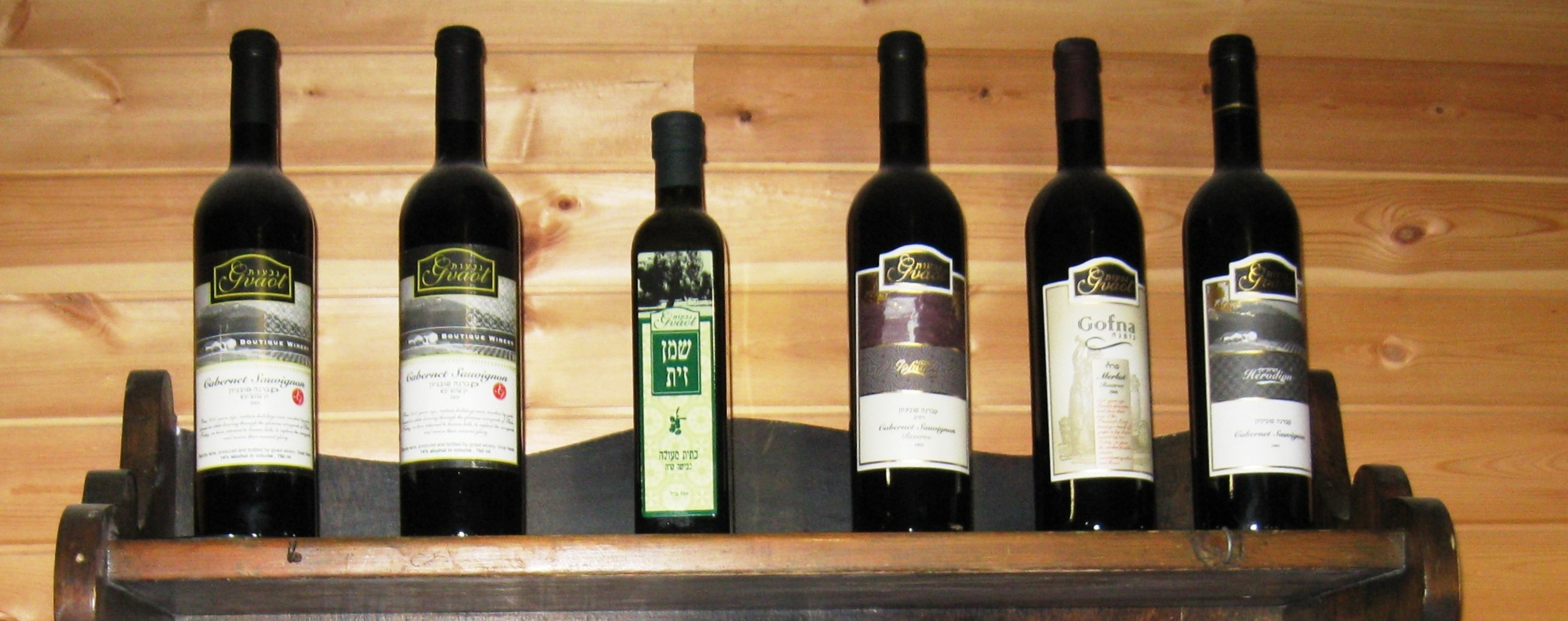 Gevaot Baoptique Wine